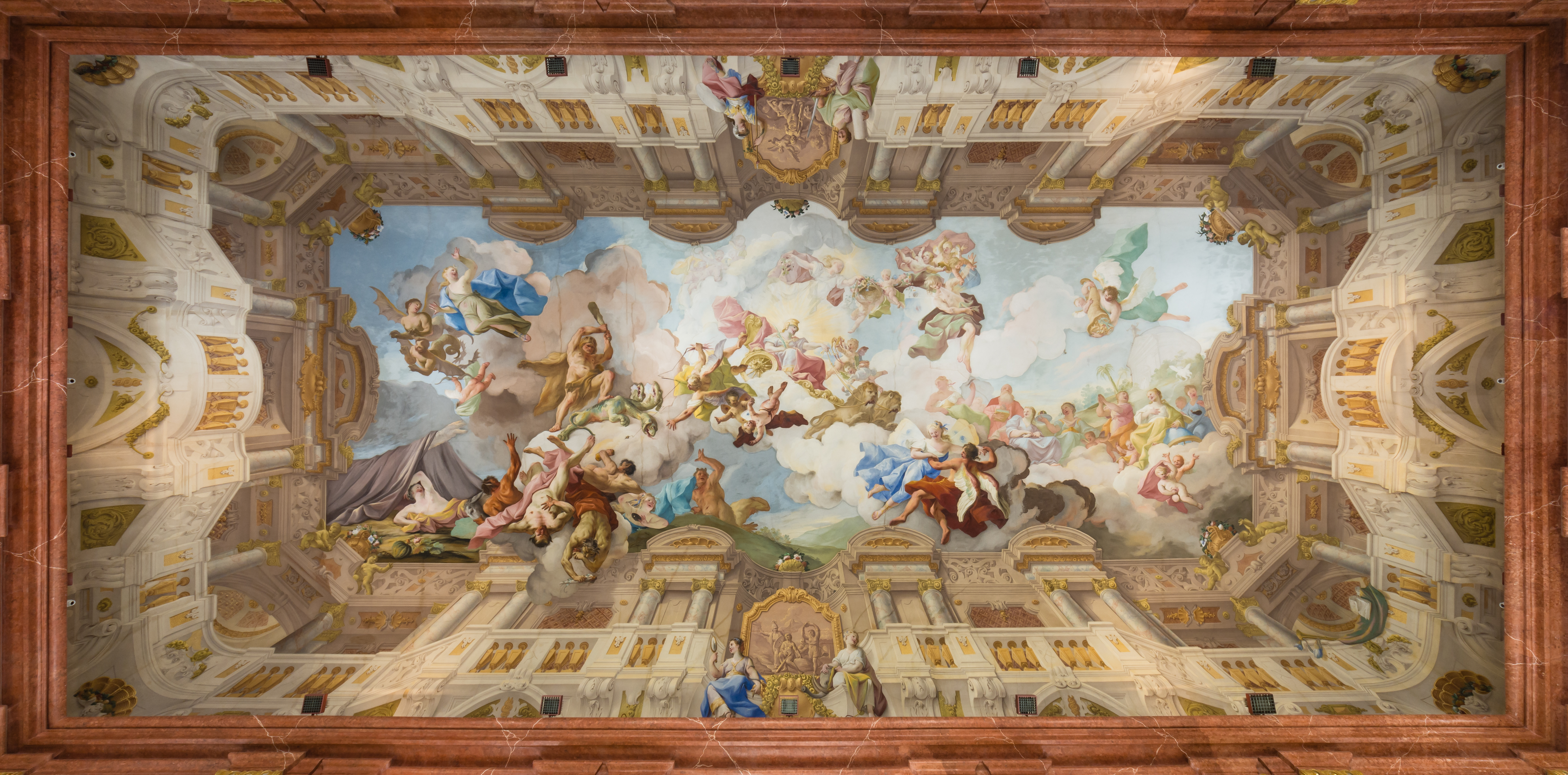 Ceiling fresco in the Marble Hall of Melk Abbey by Paul Troger († 20th July 1762)